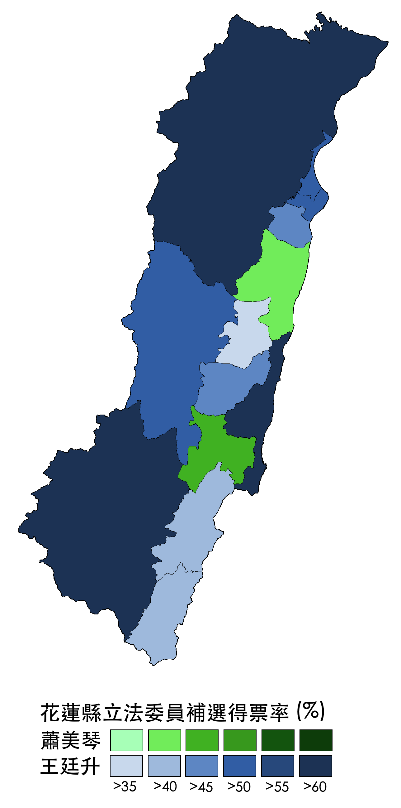 Hualien county legislative yuan by-election 2010